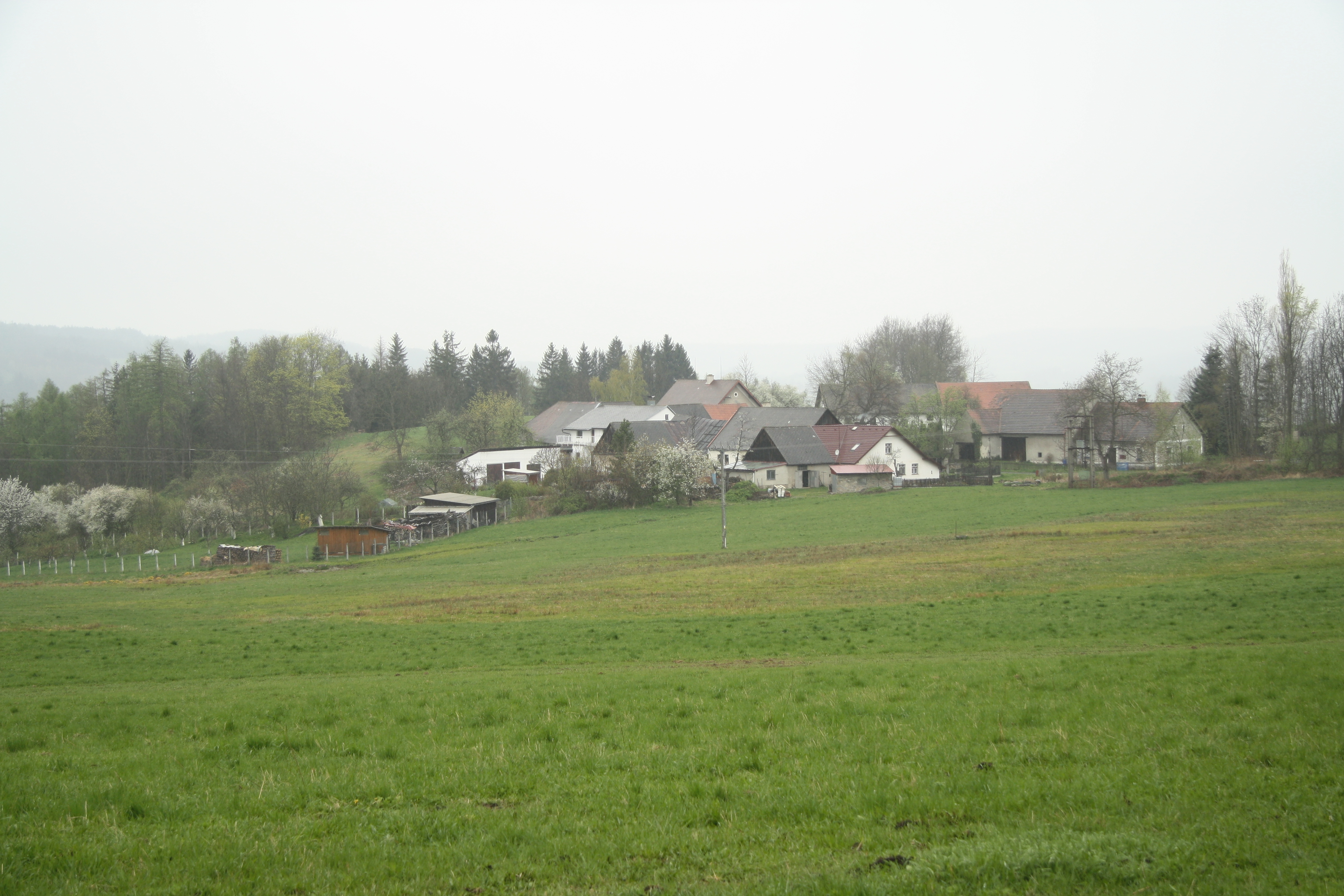 Overview of Konín, Velhartice, Klatovy District.